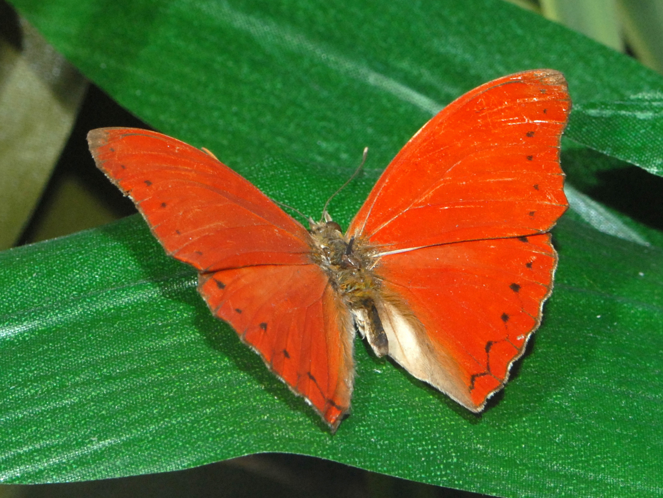 Cymothoe aramis aramis. Mounted specimen, dorsal view, at the Museo Civico di Storia Naturale di Milano